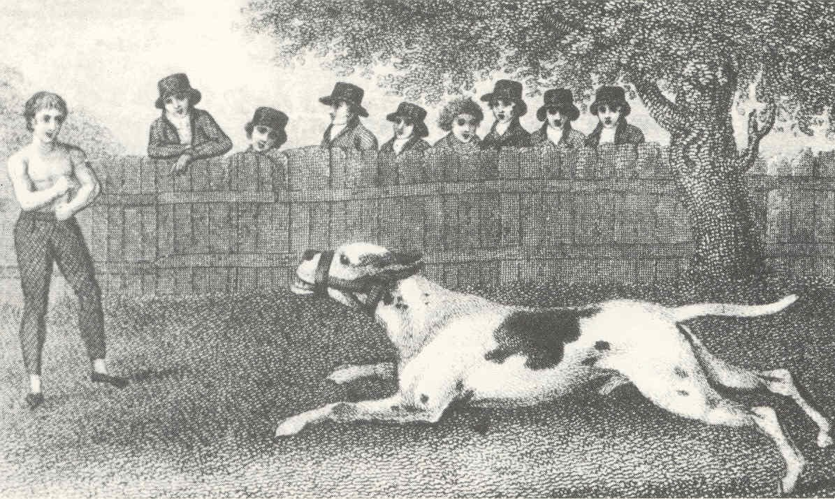 Print titled "Gentlemen and the Bulldog", published in The Sporting Magazine, circa 1807, depicting an instance of human-baiting. From the private collection of Headphonos.